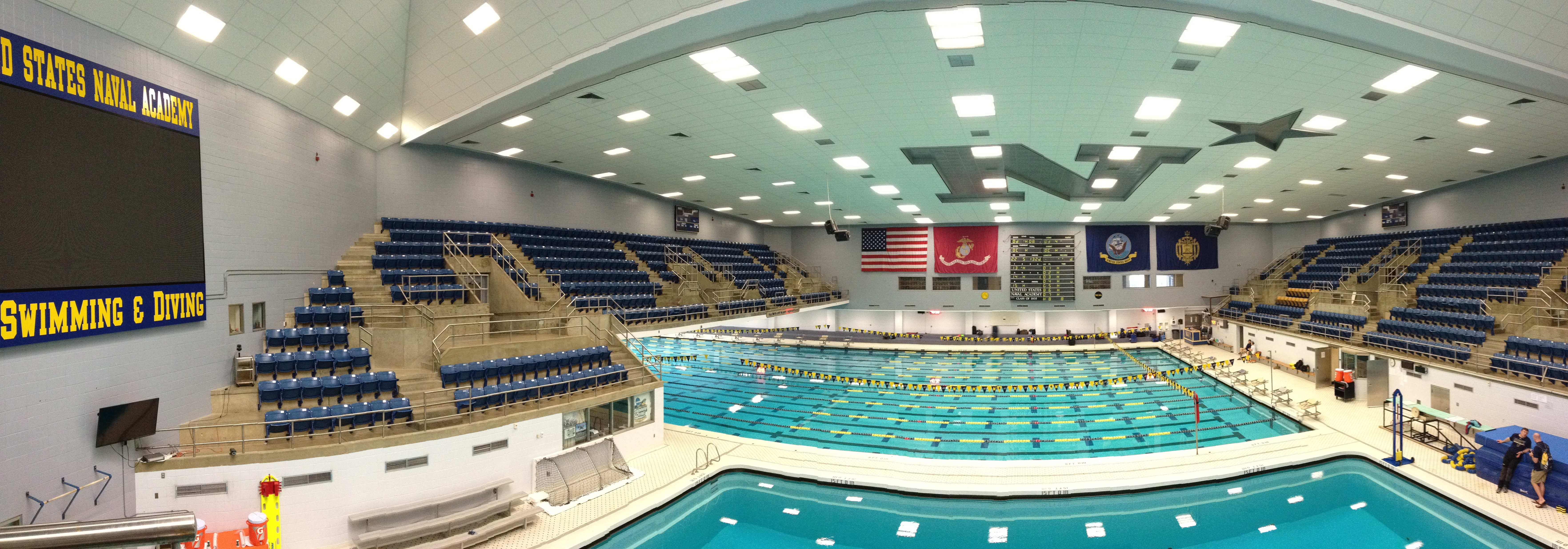 A panoramic shot of the Lejeune Hall pool.